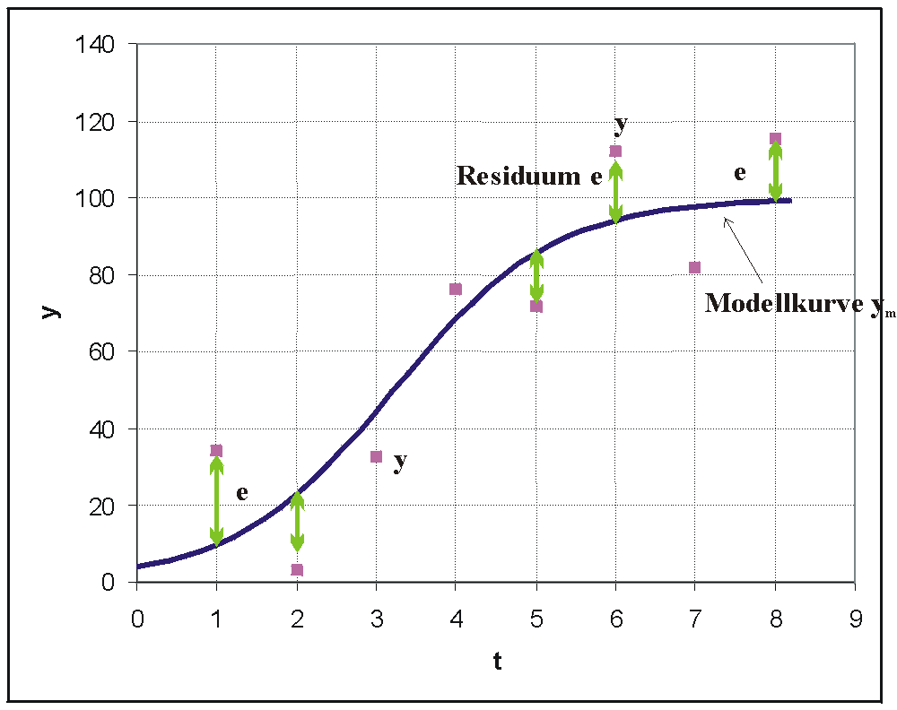 Least square method adjusting a logistic function to a colud of points